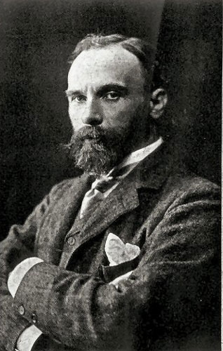 A photograph of John William Waterhouse.